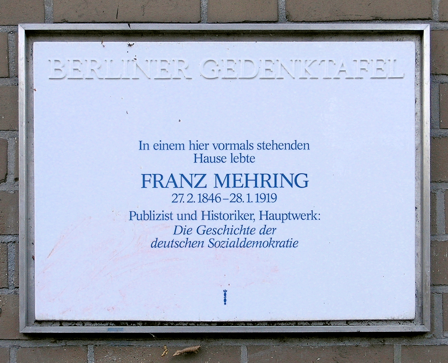 Berlin memorial plaque, Franz Mehring, Beymestraße 7, Berlin-Steglitz, Germany Koordinate:52°27′3″N 13°19′55″E / 52.45083°N 13.33194°E